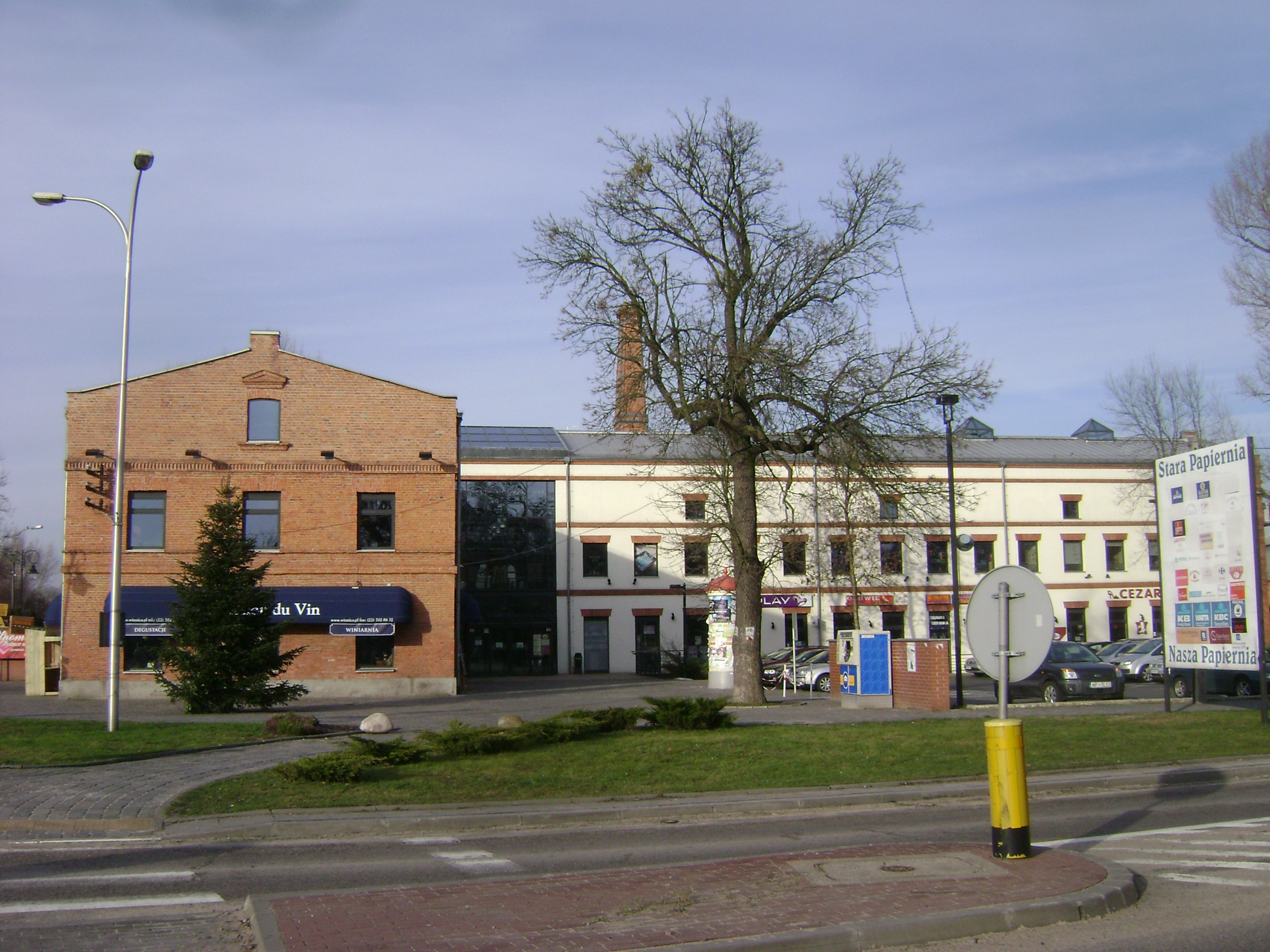 Poland. Konstancin-Jeziorna